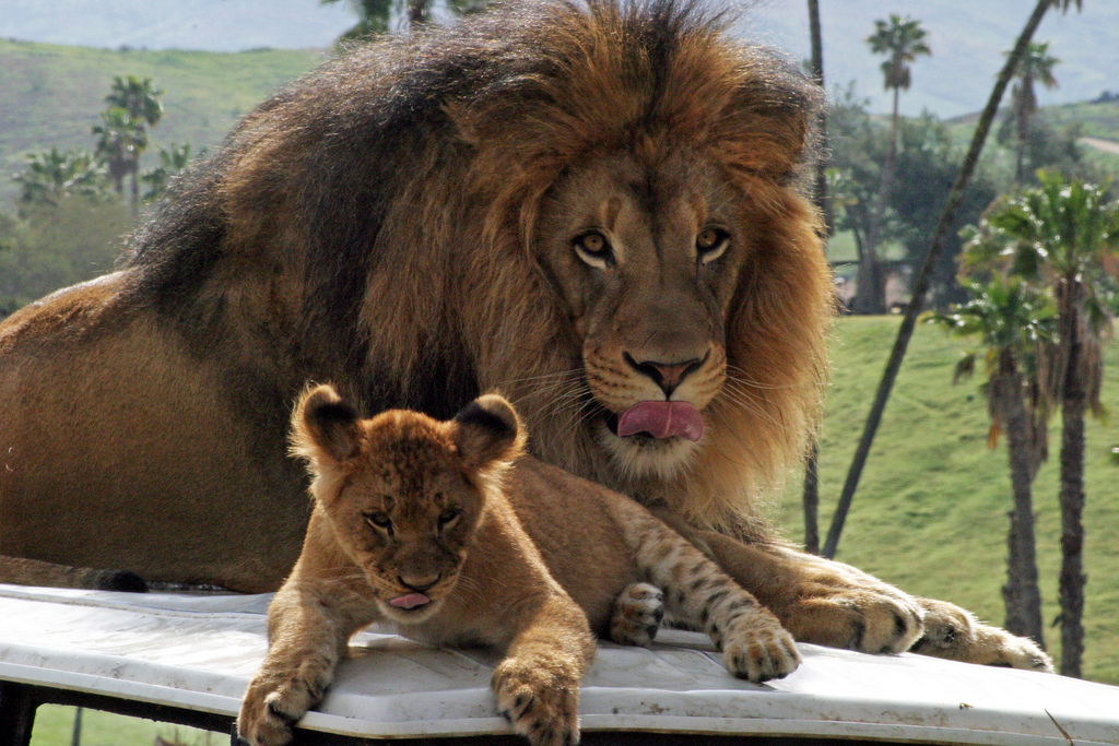 One of several shots of these two.